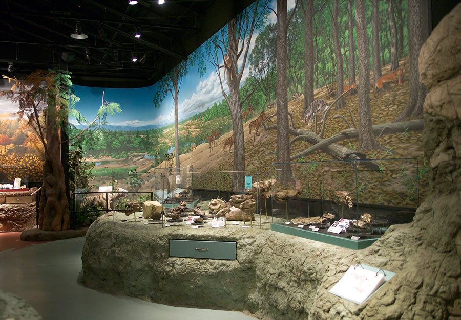 Turtle Cove portion of the Paleo center exhibit, John Day Fossil Beds National Monument, Oregon